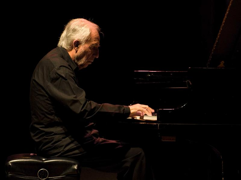 Jacques Loussier at the age of 74